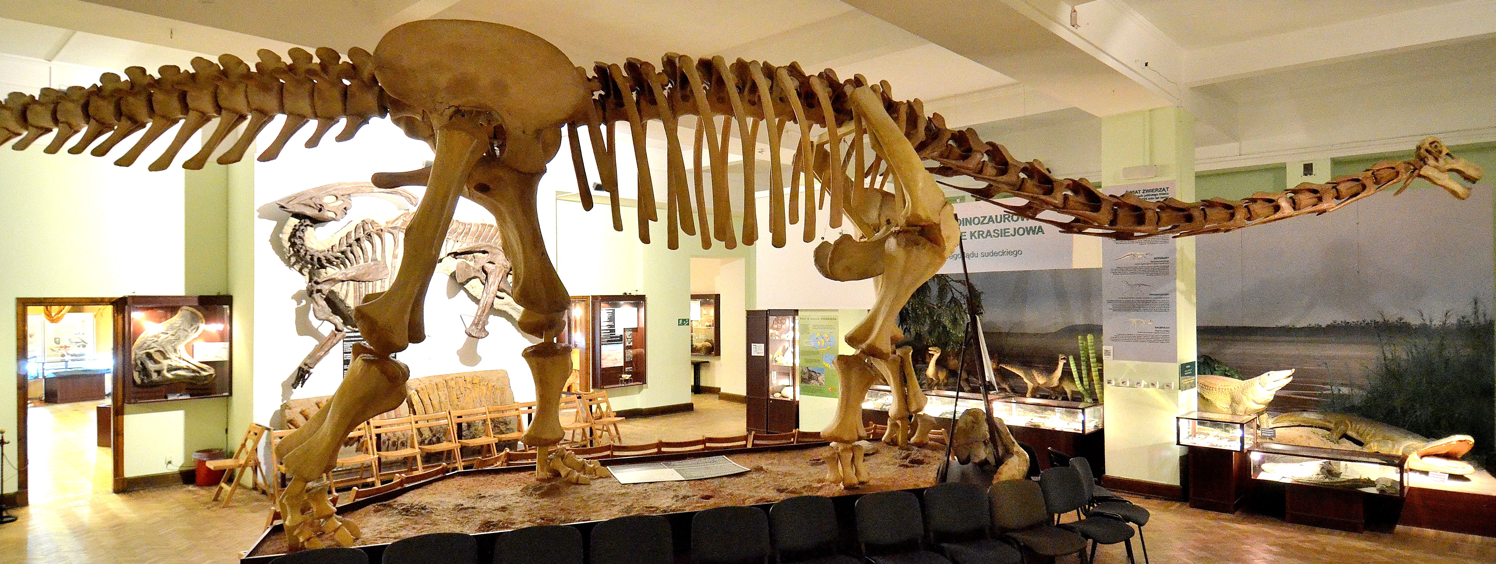 Opisthocoelicaudia skeleton. Museum of Evolution in Warsaw